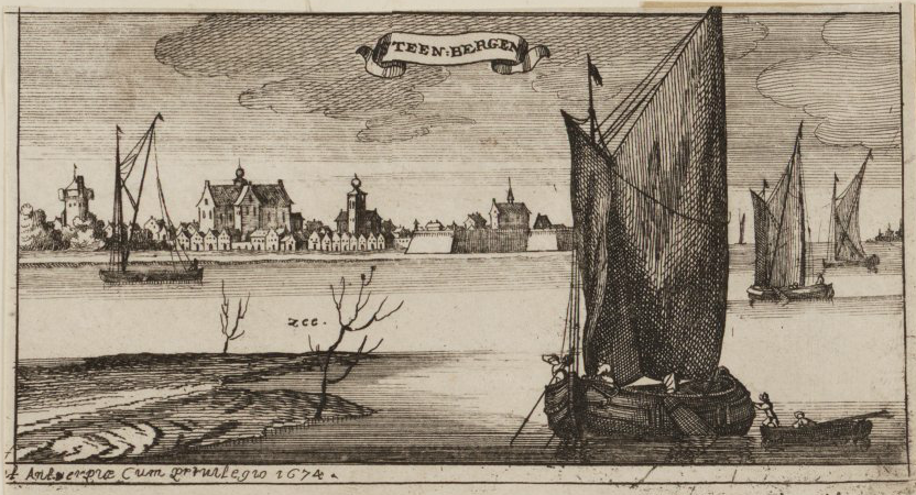 View of Steenbergen, 1674.